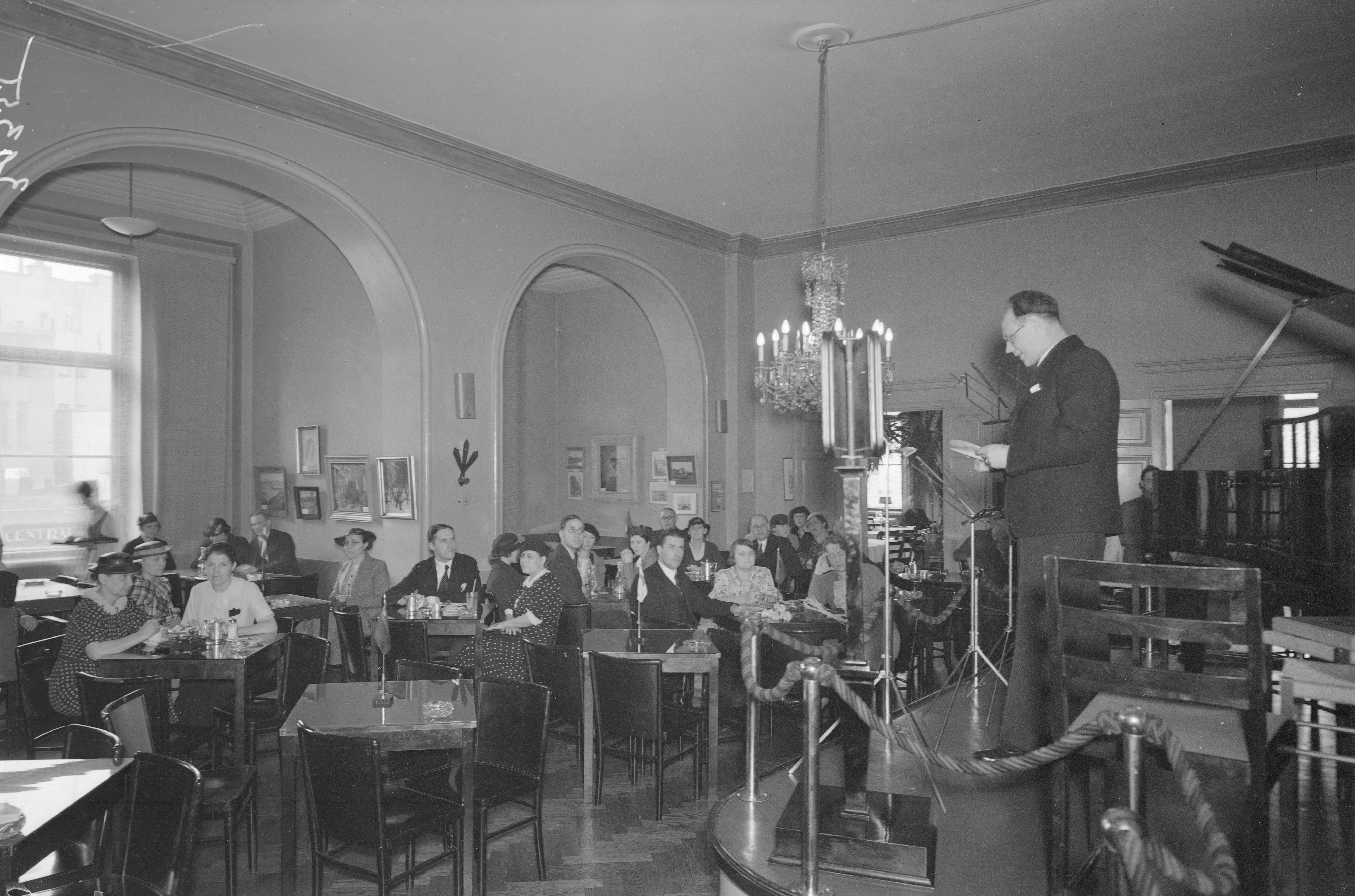 Finnish fascist organization IKL fundraising raffle at the Musta Karhu restaurant in Helsinki.